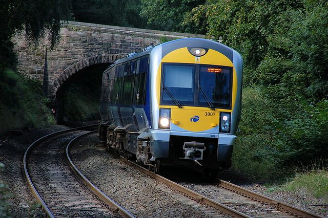 Approaching Seahill station. See 243419. This is the 09.30 Portadown-Bangor approaching the station. The track in the background used to be prone to flooding before the line was re-laid in 2001/02 and the long neglected drainage replaced.